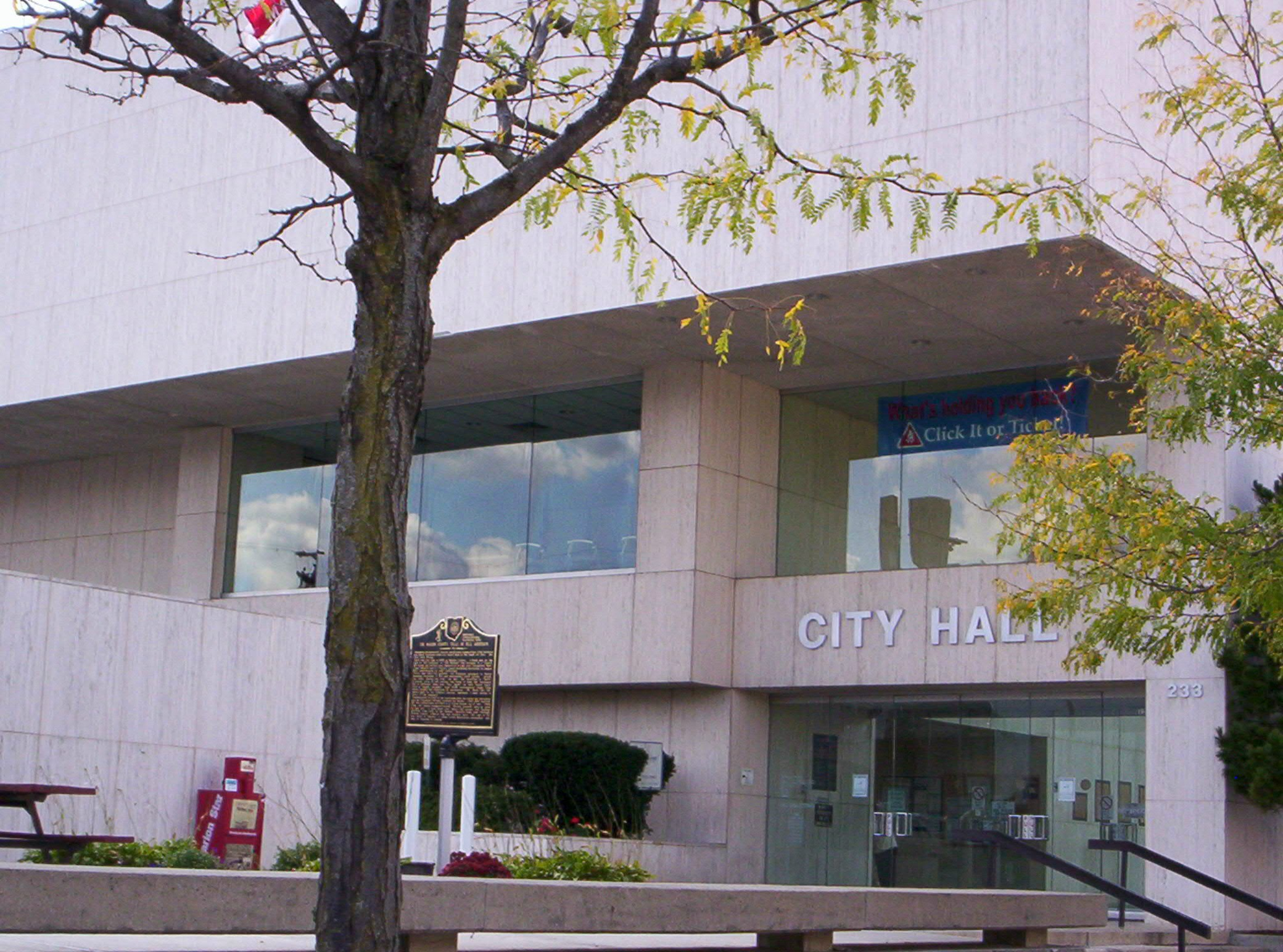 This photograph of the Marion City Hall building in downtown Marion, Ohio was taken by User OHWiki.